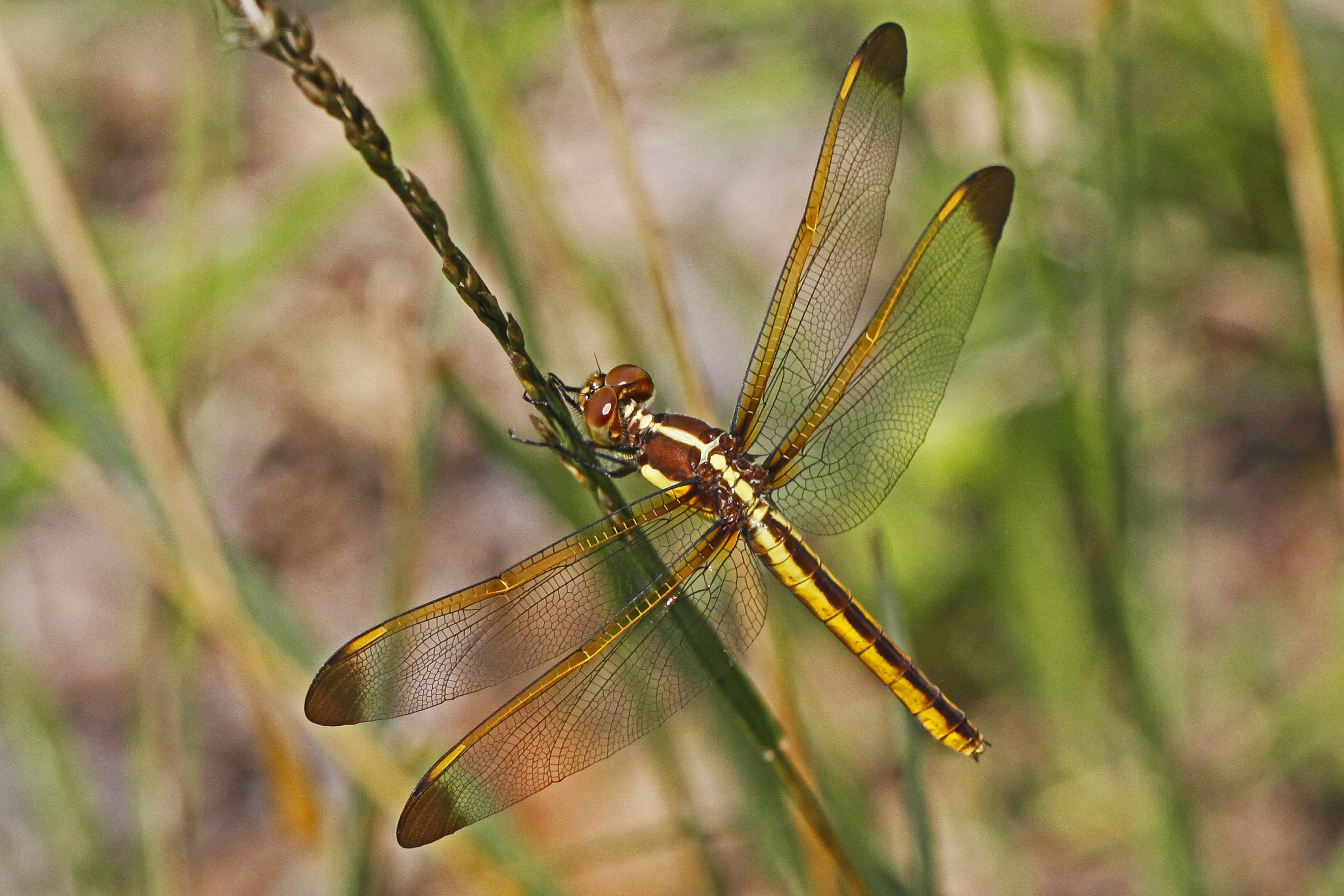 Yellow-sided Skimmer - Libellula flavida, Patuxent National Wildlife Refuge, Maryland. (Anne Arundel County, 7/10/2011)